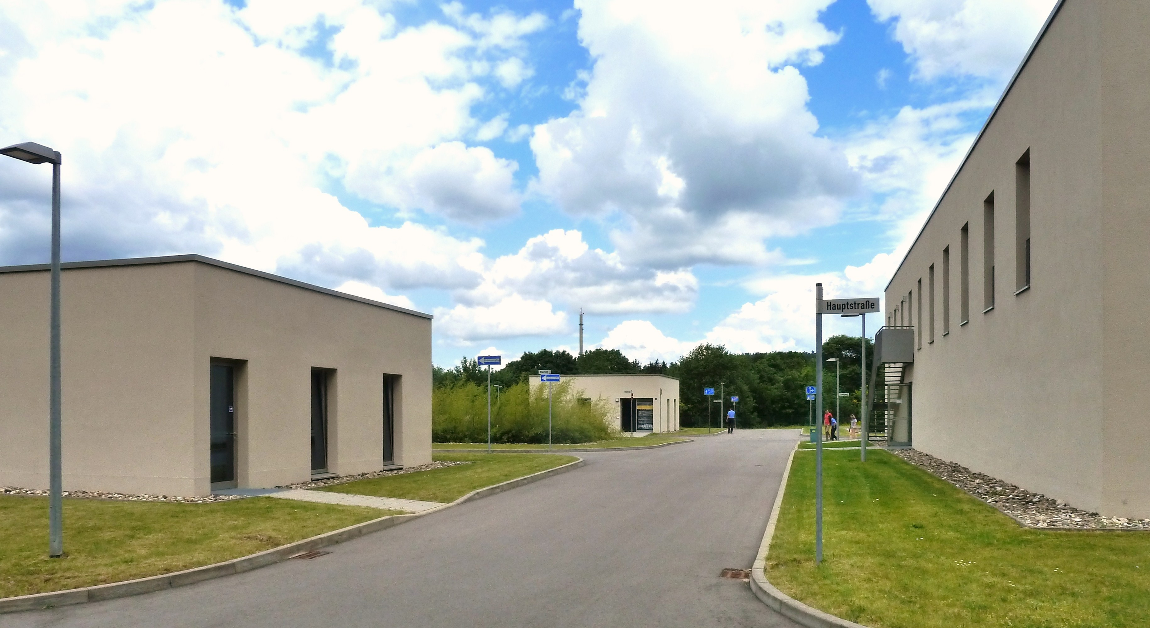 Police Academy in Meiningen, Germany.